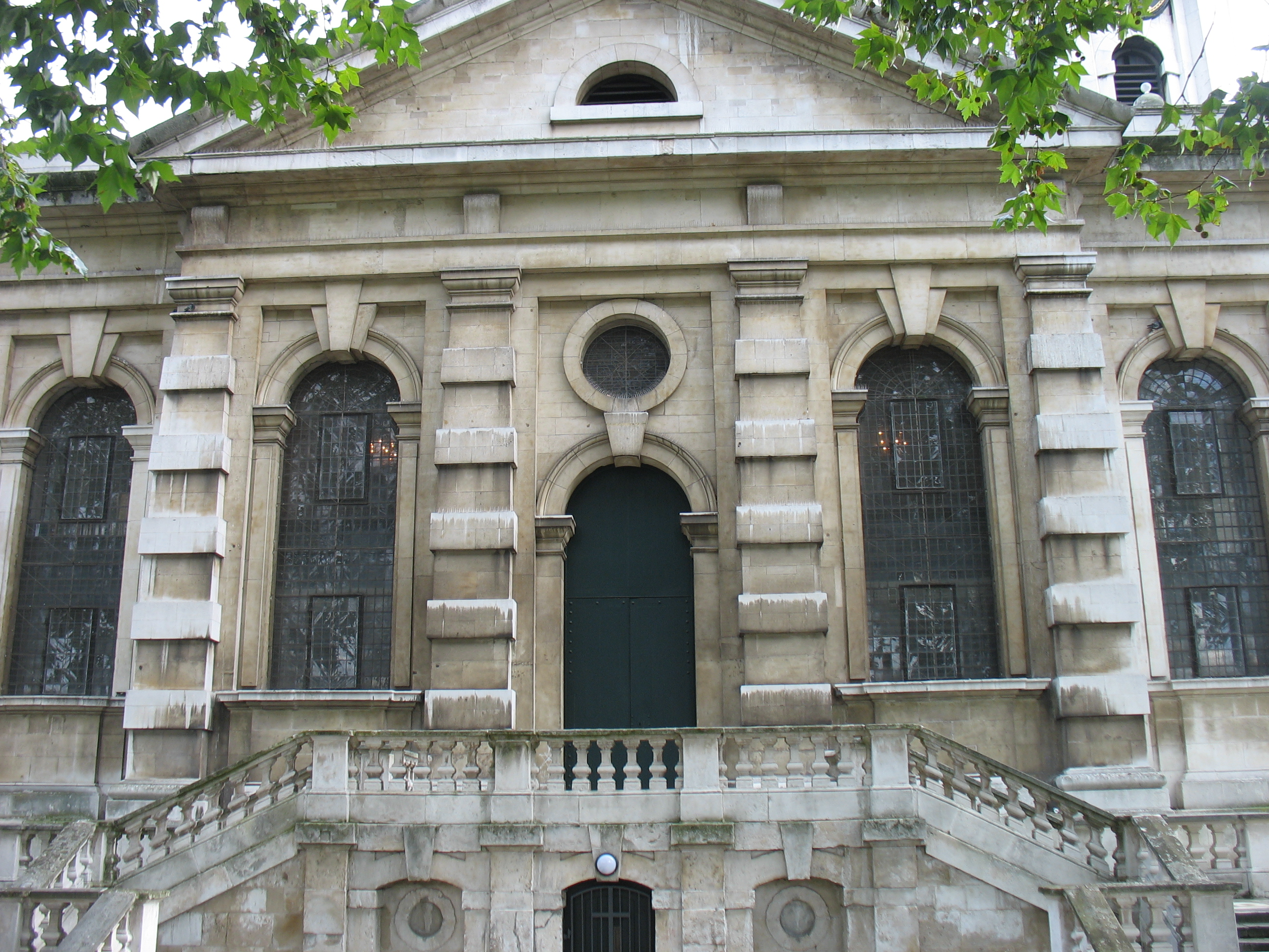 St. Paul's Church in Deptford, London, EnglandSt. Paul's Church - Deptford